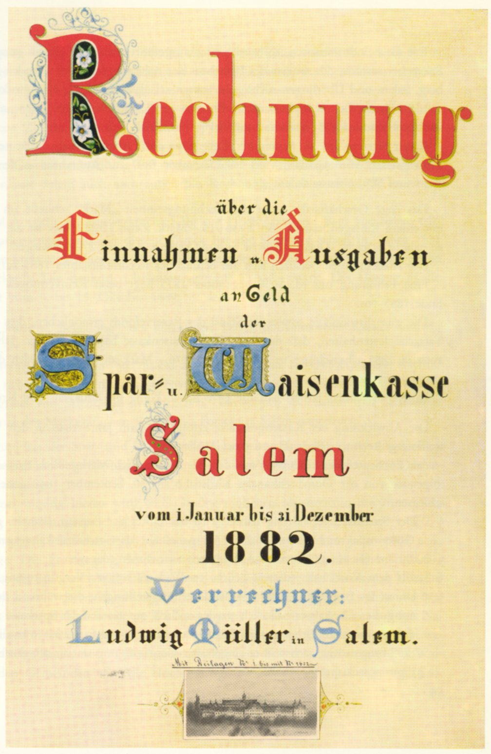 Account book of Spar- und Waisenkasse Salem 1882